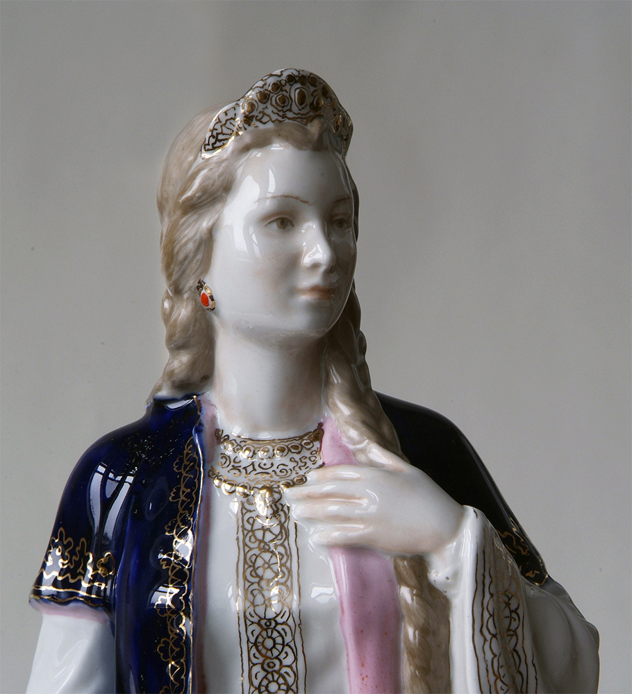 Porcelain sculpture «Lubava» - one of the four figures of the sculptural composition on the fairy tale «Sadko». Height 42 cm. Art and Industry Academy Stieglitz, Leningrad, USSR. Diploma work (1954). Porcelain of the soviet sculptor Bronislav Bystrushkin (1926-1977). Lomonosov's Porcelain Factory, Leningrad, USSR.